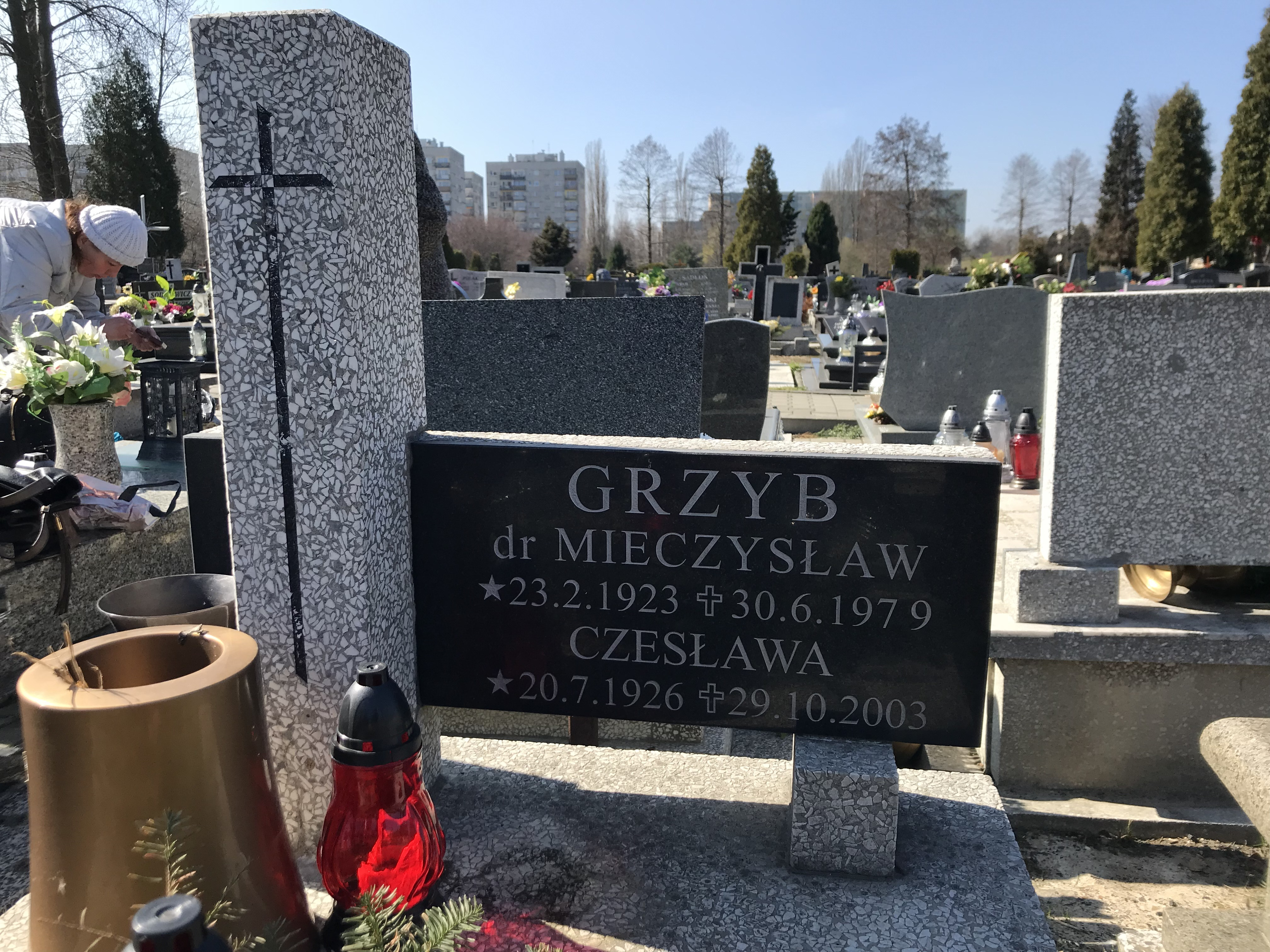 Tomb of Dr. Mieczyslaw Grzyb 1923-1979 Polish historian of the University of Silesia